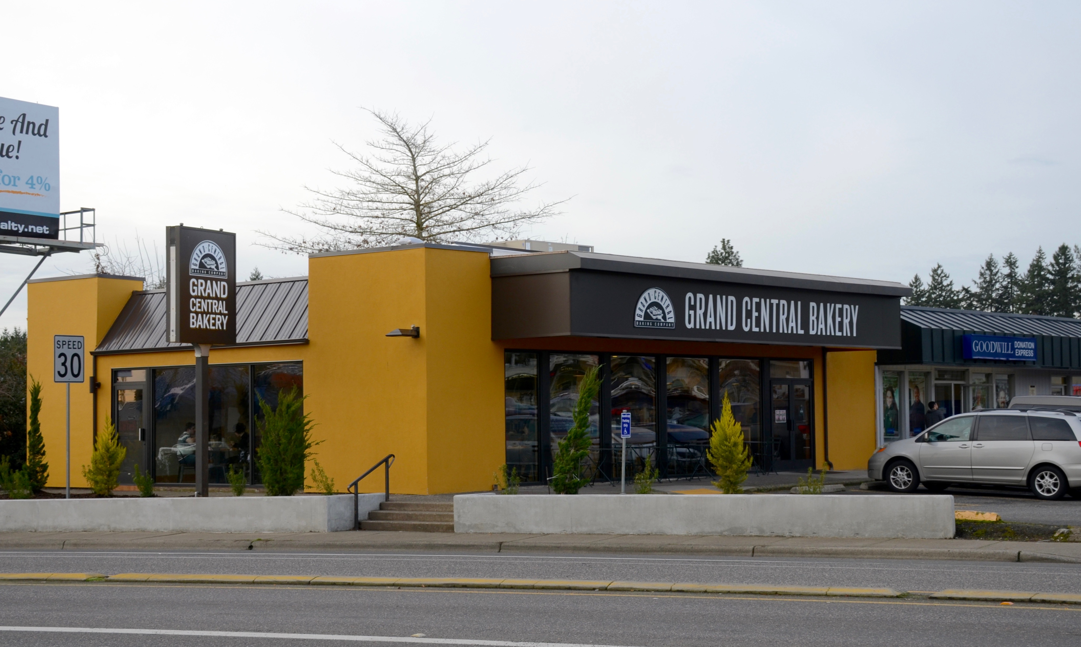 A Grand Central Bakery restaurant in Cedar Mill, Oregon. Housed in an extensively rebuilt former 7-Eleven store building, this Grand Central location opened in December 2015.